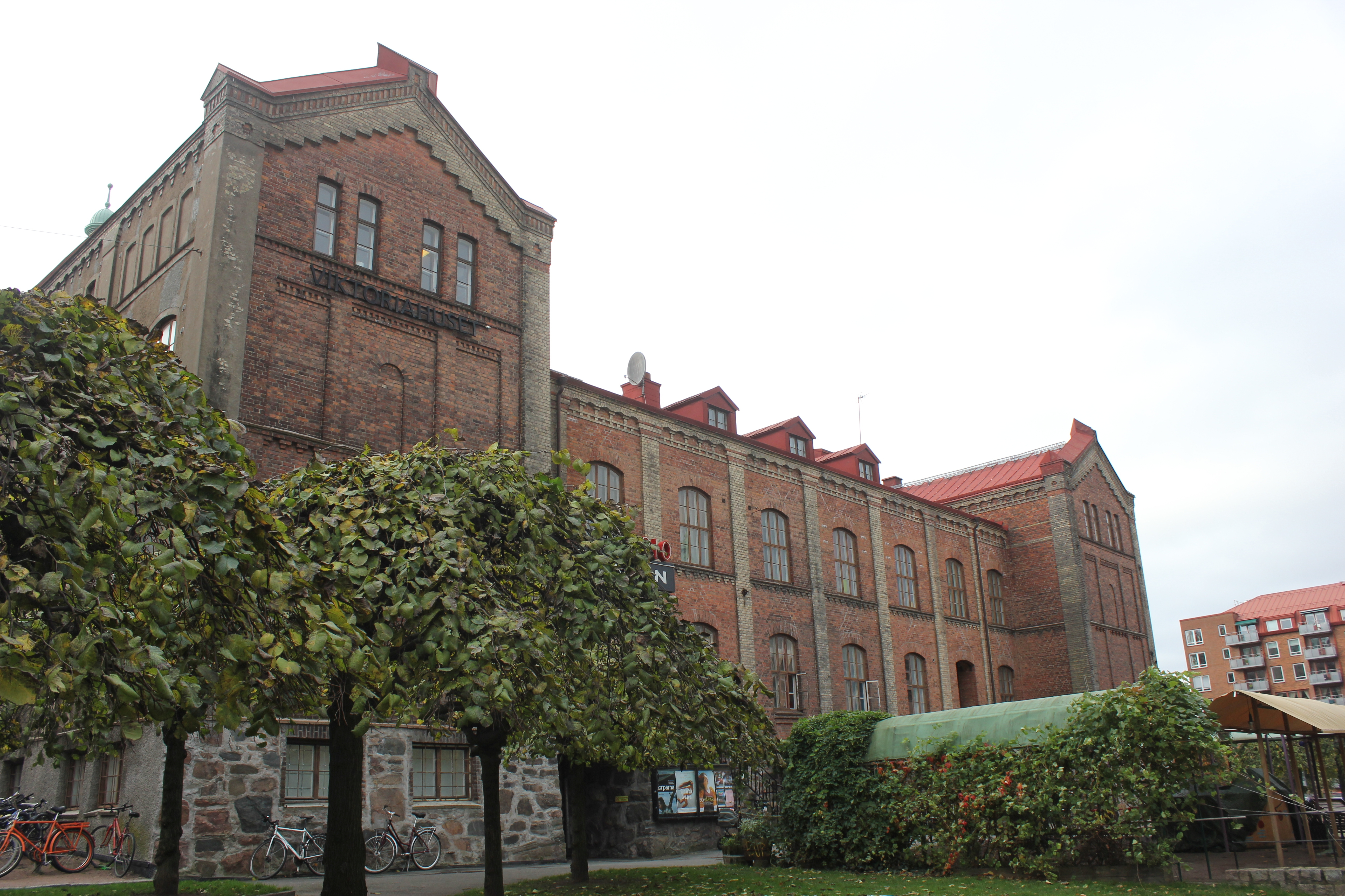 Gothenburg - Viktoriahuset